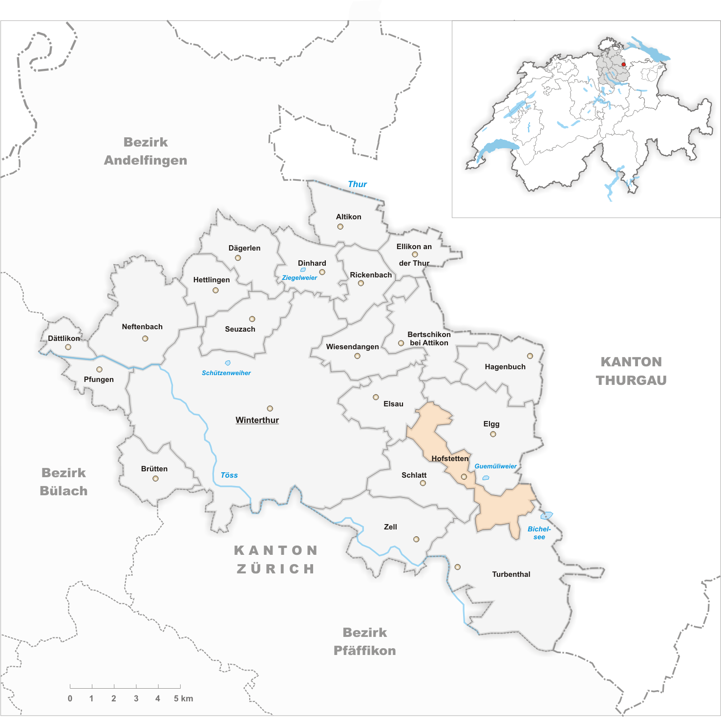 Municipality Hofstetten